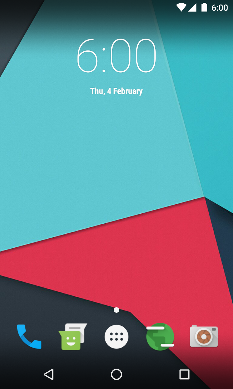 Screenshot of CyanogenMod 13 Home Screen